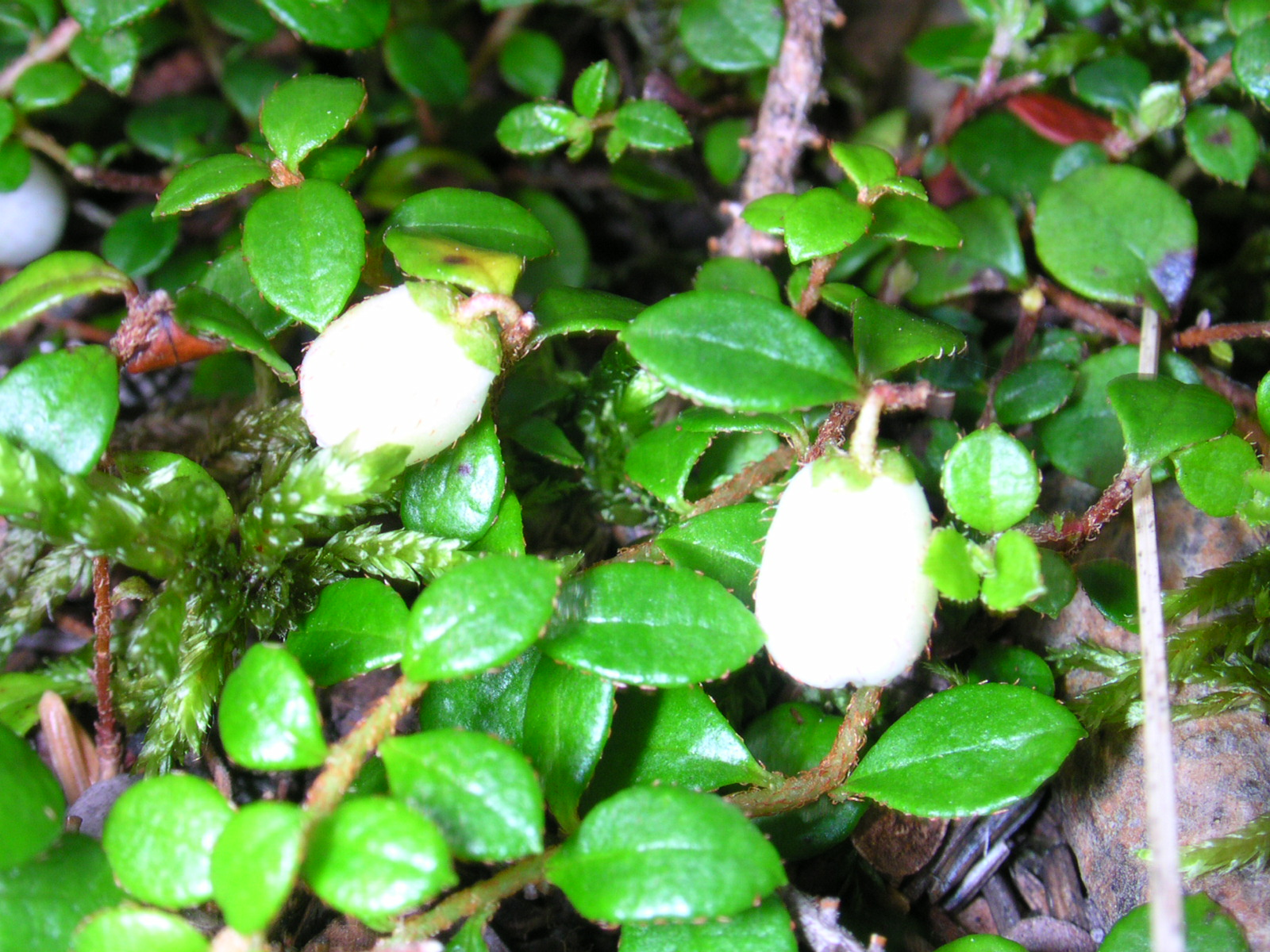 Gaultheria_hispidula_4